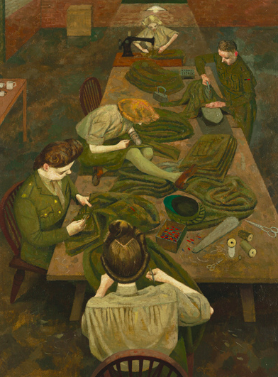 A painting by war artist Evelyn Dunbar in 1943